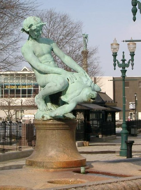 The Harriet Burnside fountain in downtown Worcester, Massachusetts. I took this image in March 2005.